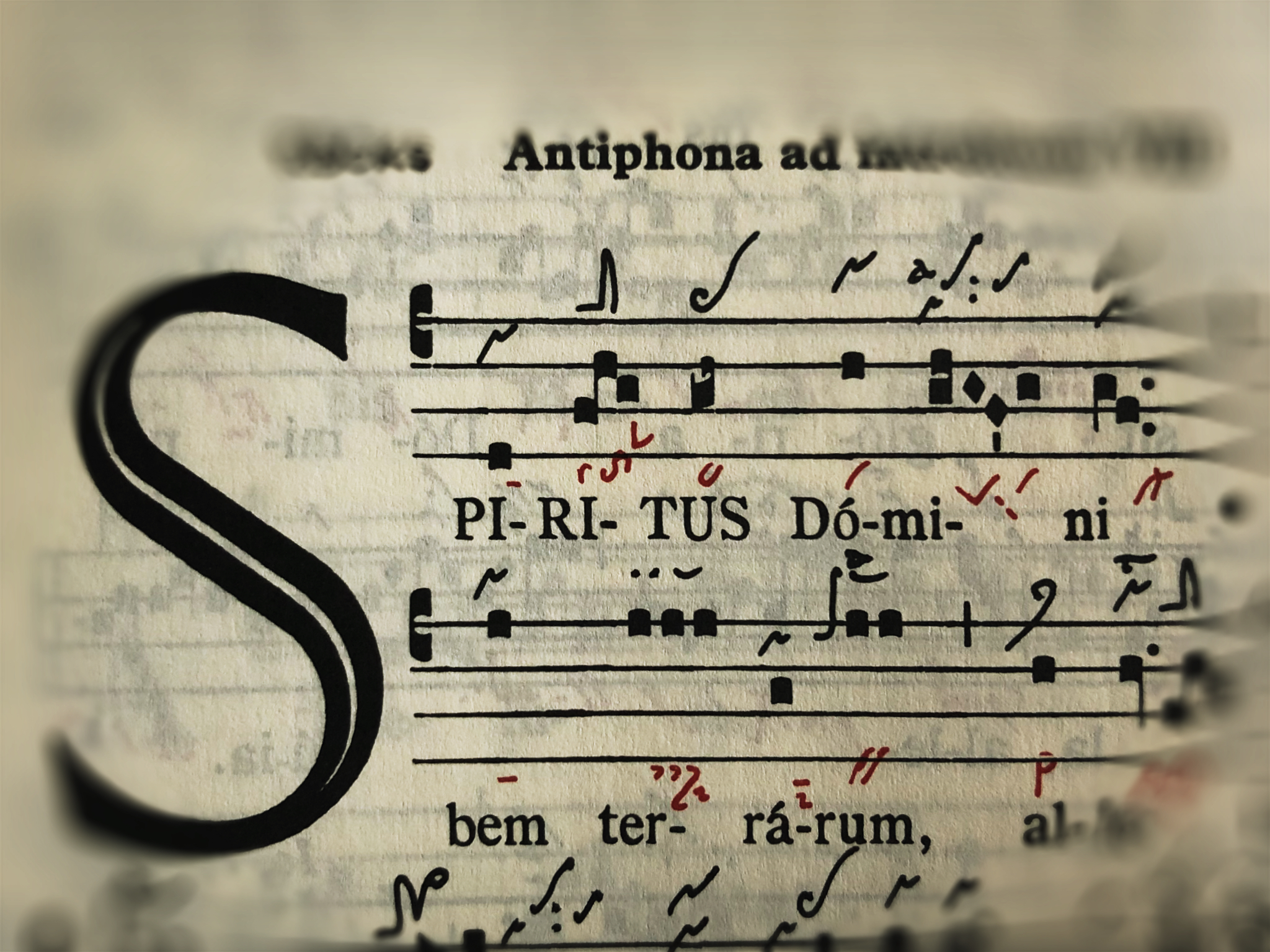 Incipit of the introitus Spiritus Domini